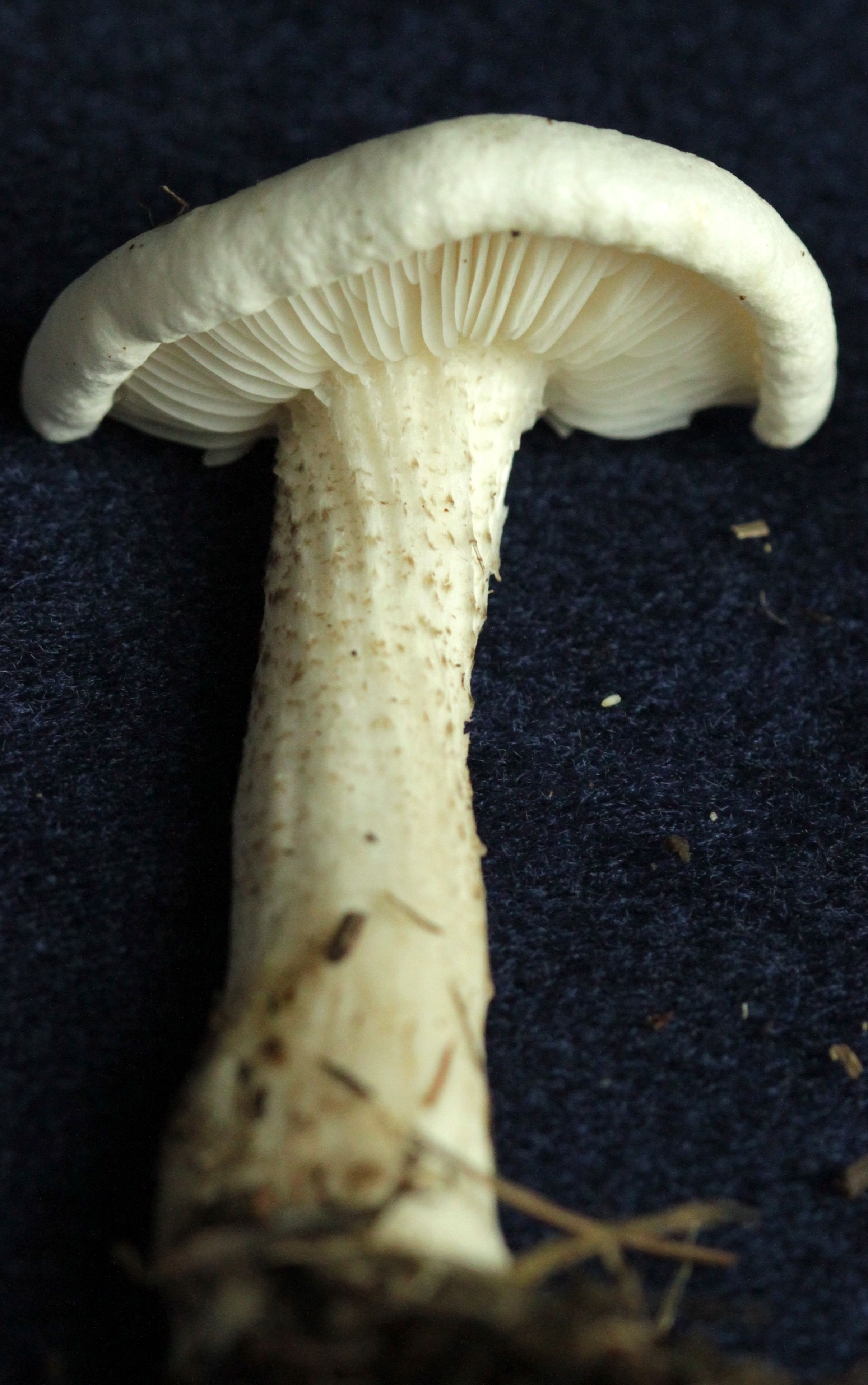 Fruit body of the fungus Melanoleuca verrucipes Singer showing the distinctive scabrous stipe. Collected in Albany, California, USA. See Mushroom Observer page for more detailed collection notes.